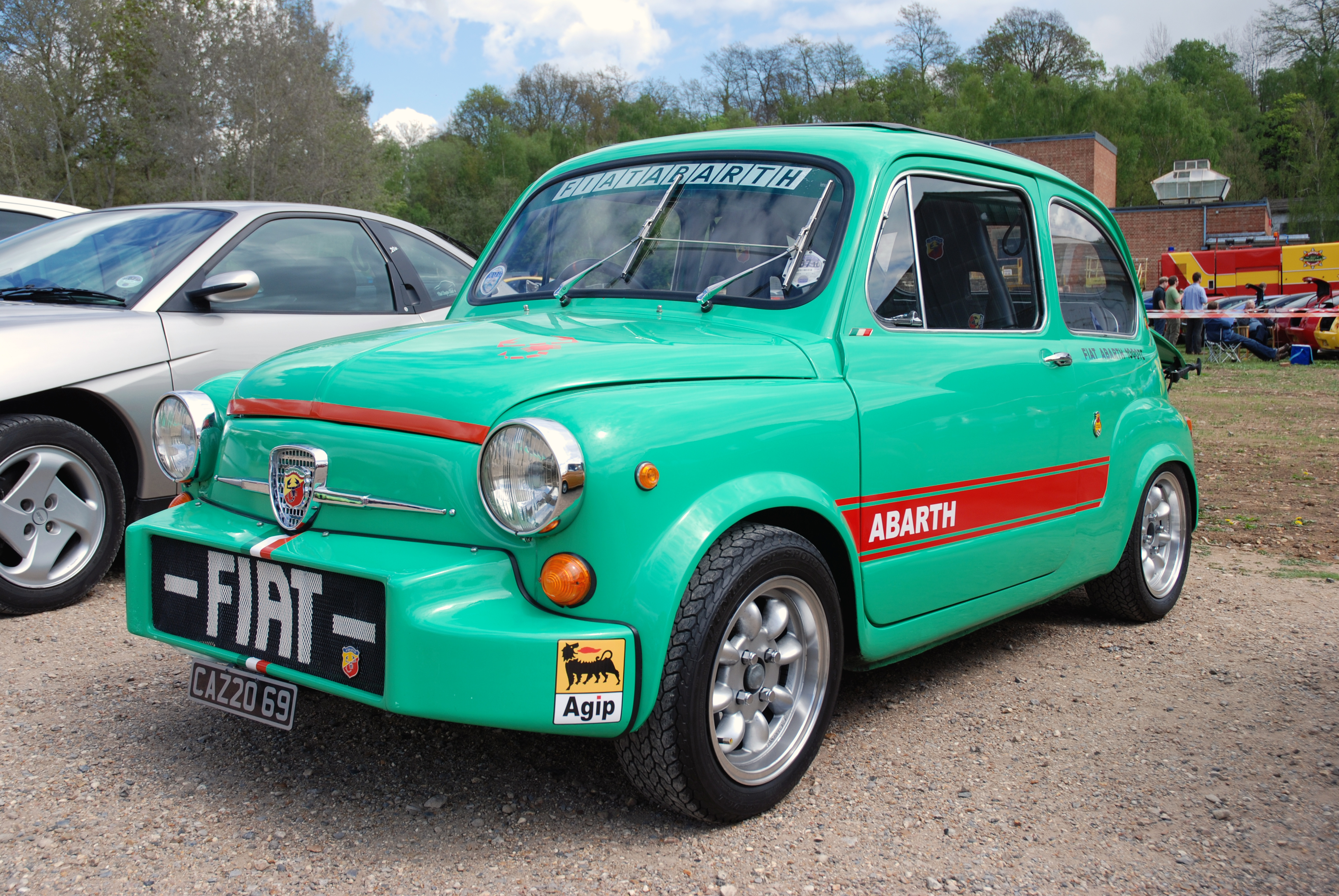 Fiat Abarth 1000 at Brooklands, 1st May 2010